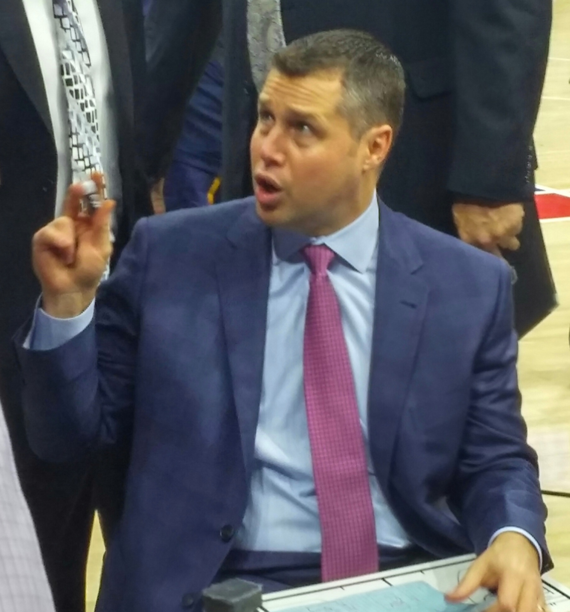 National Basketball Association head coach Dave Joerger.